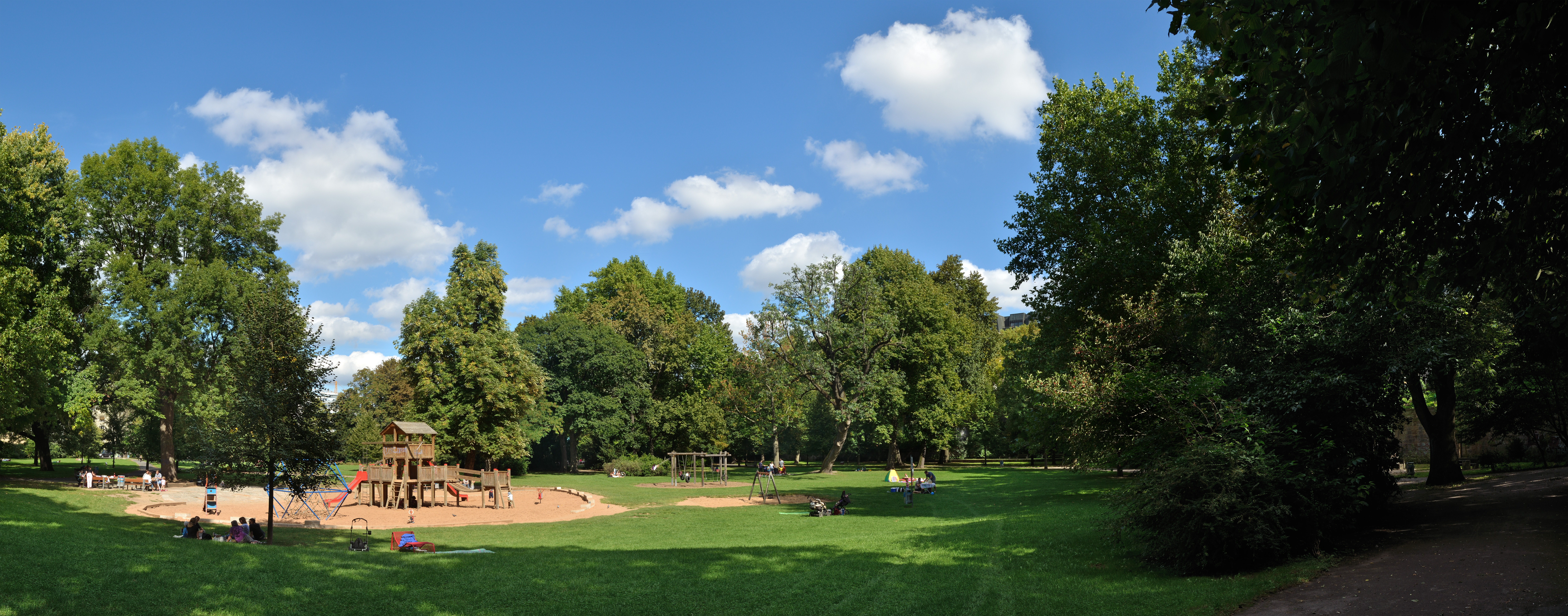 "Rosenaupark" in Nuremberg, Germany. It is a five segment panoramic image.